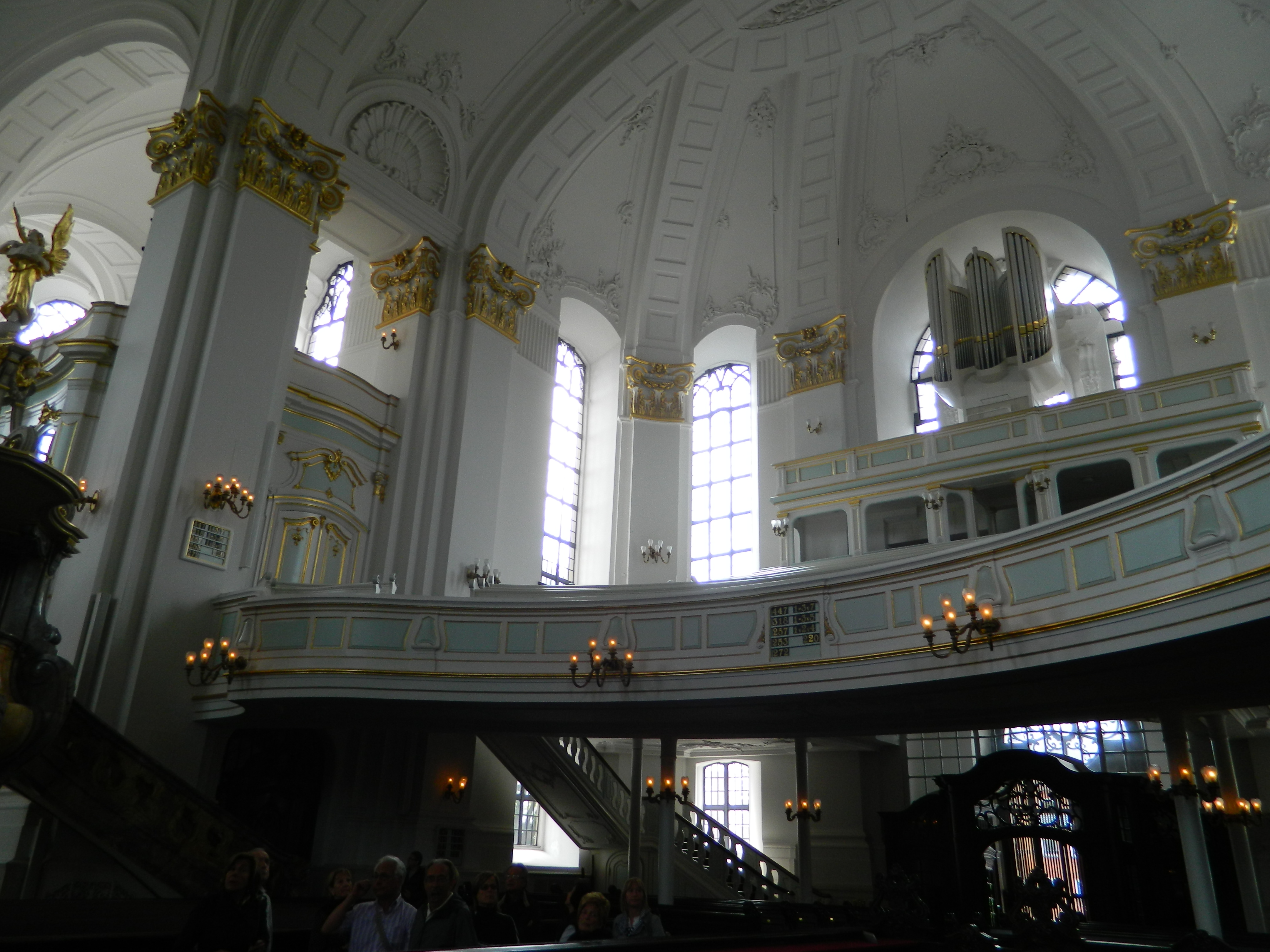 Hamburg. St. Michaelis Church